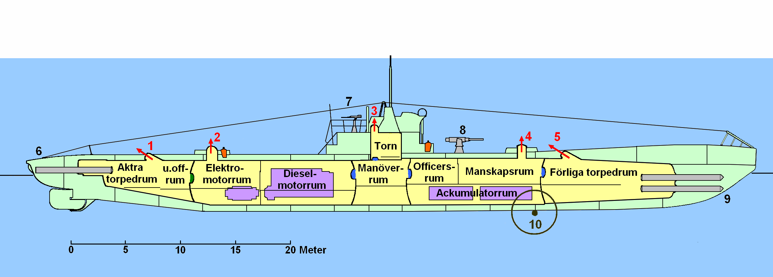 Sketch of Swedish submarine HMS Ulven, modified Draken-class.